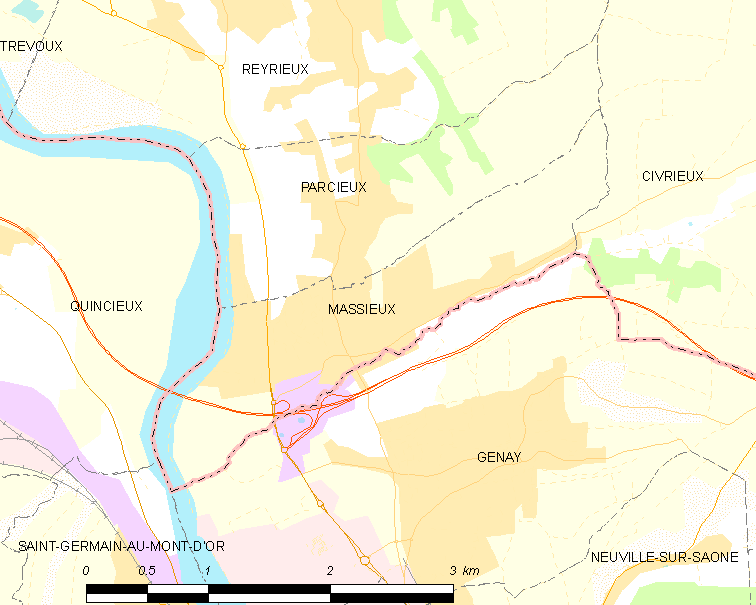 Map of French commune: Massieux Map commune FR insee code 01238.png